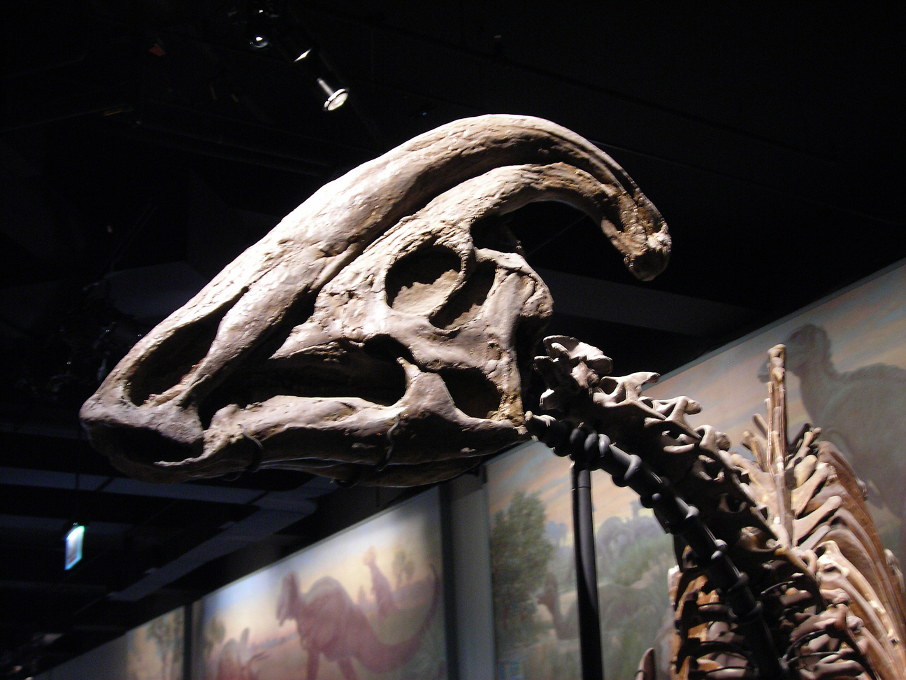 Photo: Parasaurolophus cyrtocristatus (possibly a female Parasaurolophus walkeri) skull, at the Field Museum in Chicago.